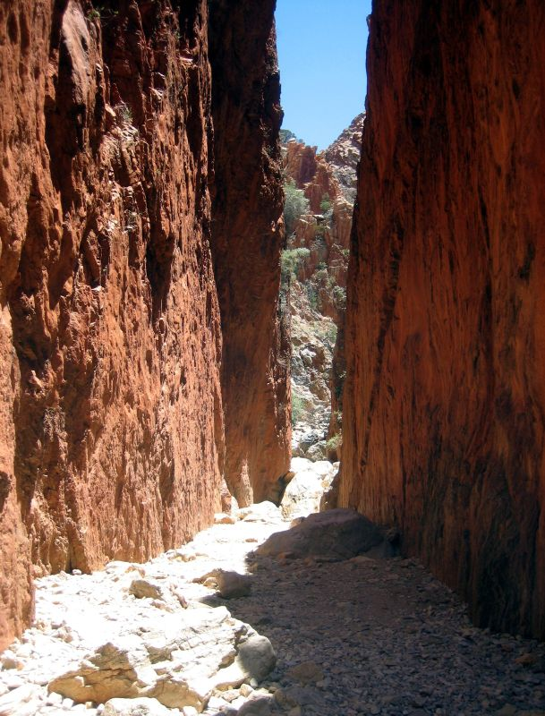 Standley Chasm, West MacDonnell Ranges